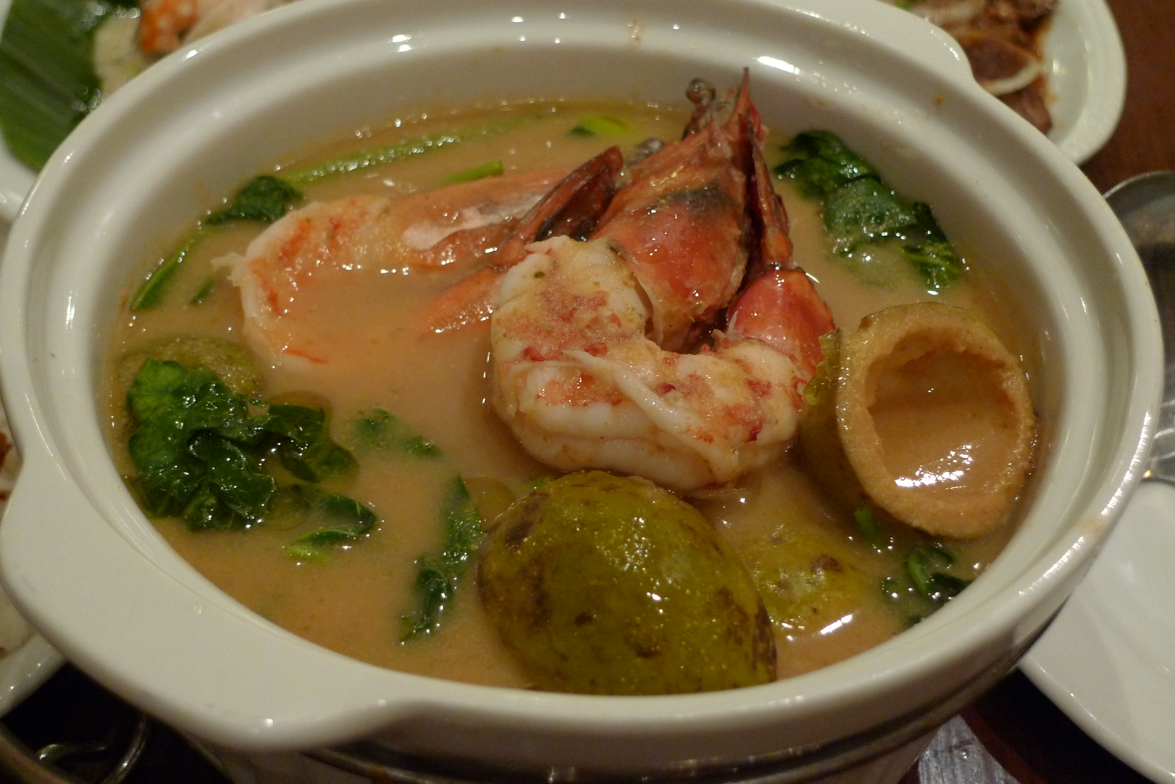 Fely J's Sinigang with Guava